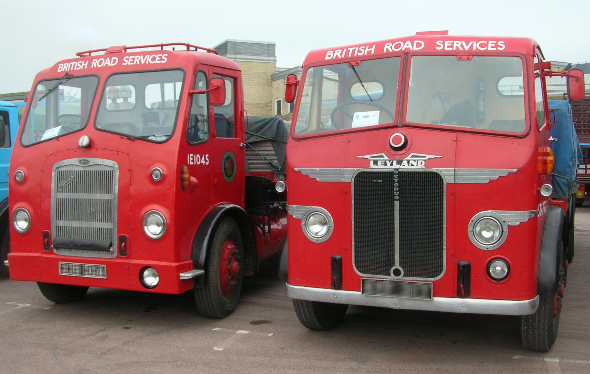 BRS-liveried vehicles. A 1961 Bristol HG on the left and a 1949 Leyland Octopus on the right. These vehicles were photographed attending the 2007 Classic Commercial Motor Show at the Heritage Motor Centre, Gaydon, UK.